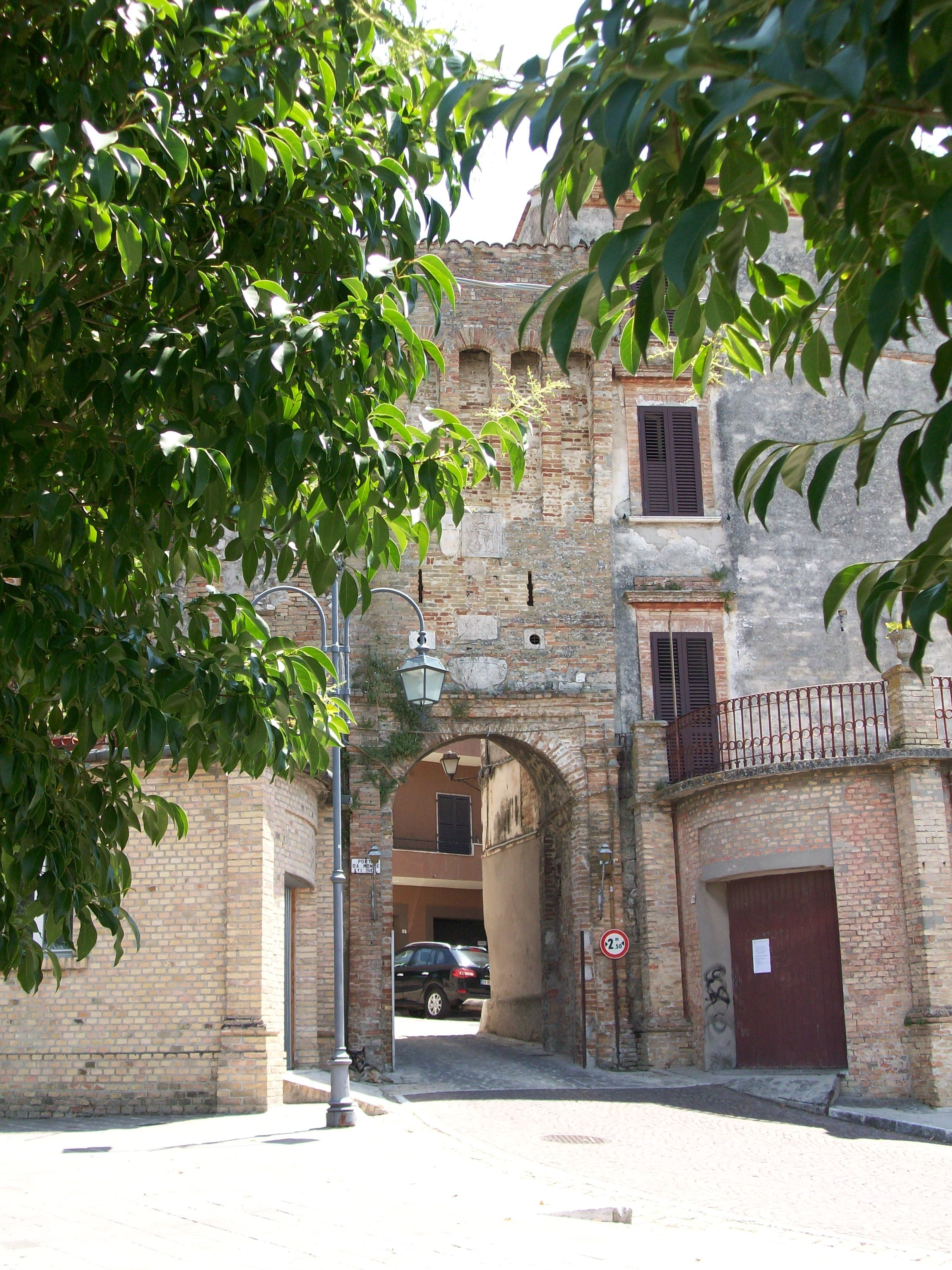 Ancarano, Porta da Monte